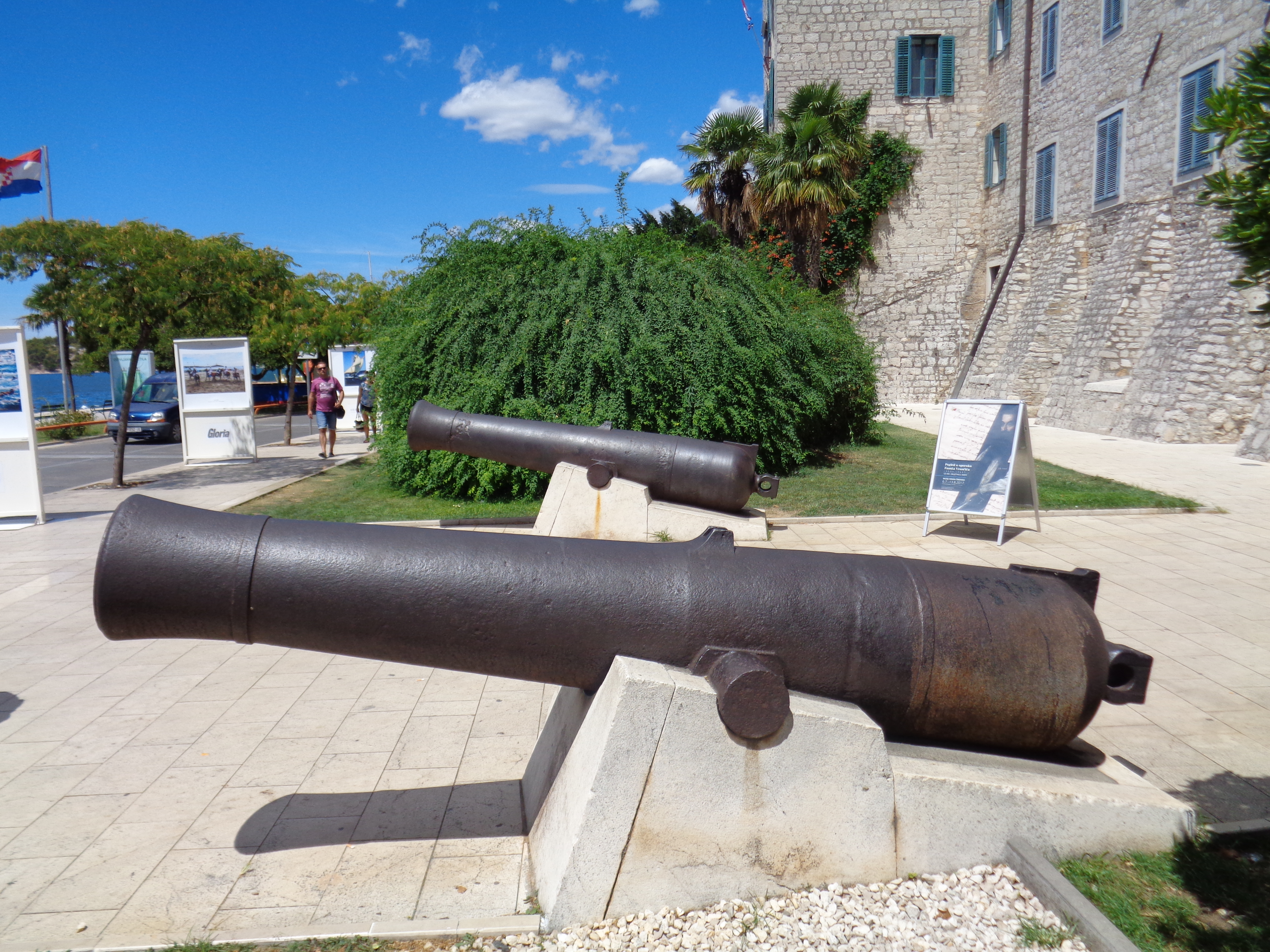 Šibenik, Croatia - cannons at city walls (side view)